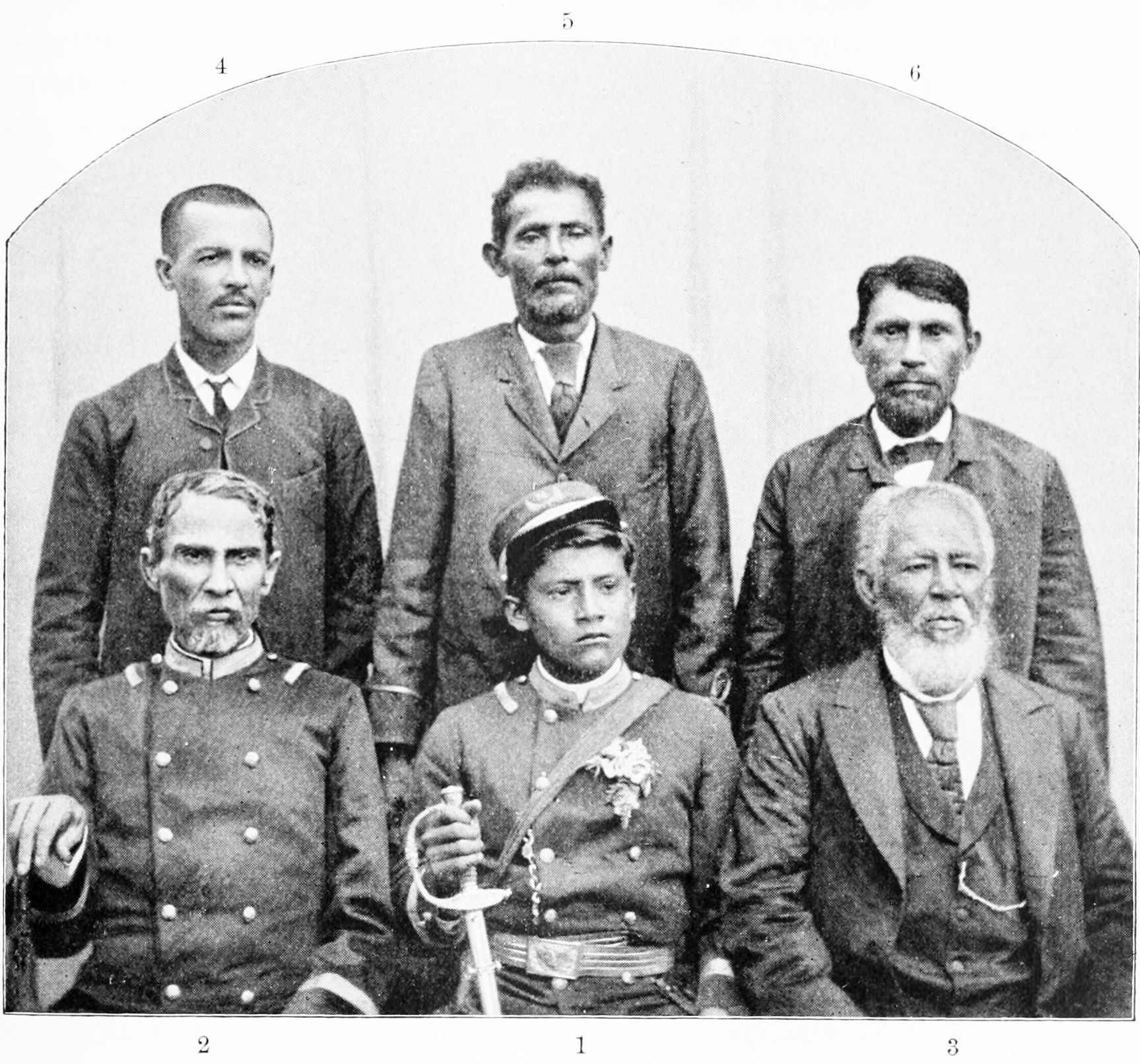 Miskito chief and executive council, original caption: FIG. 3.—THE MOSQUITO CIIIEF AND EXECUTIVE COUNCIL : 1, Robert Henry Clarence, chief; 2, Hon. Charles Patterson, vice president and guardian ; 3, Hon. J. W. Cuthbert, attorney general and secretary to the chief; 4, Mr. J. W. Cuthbert, Jr., government secretary ; 5, Mr. George Haymond, councilman and headman ; 6, Mr. Edward McCrea, councilman and headman.